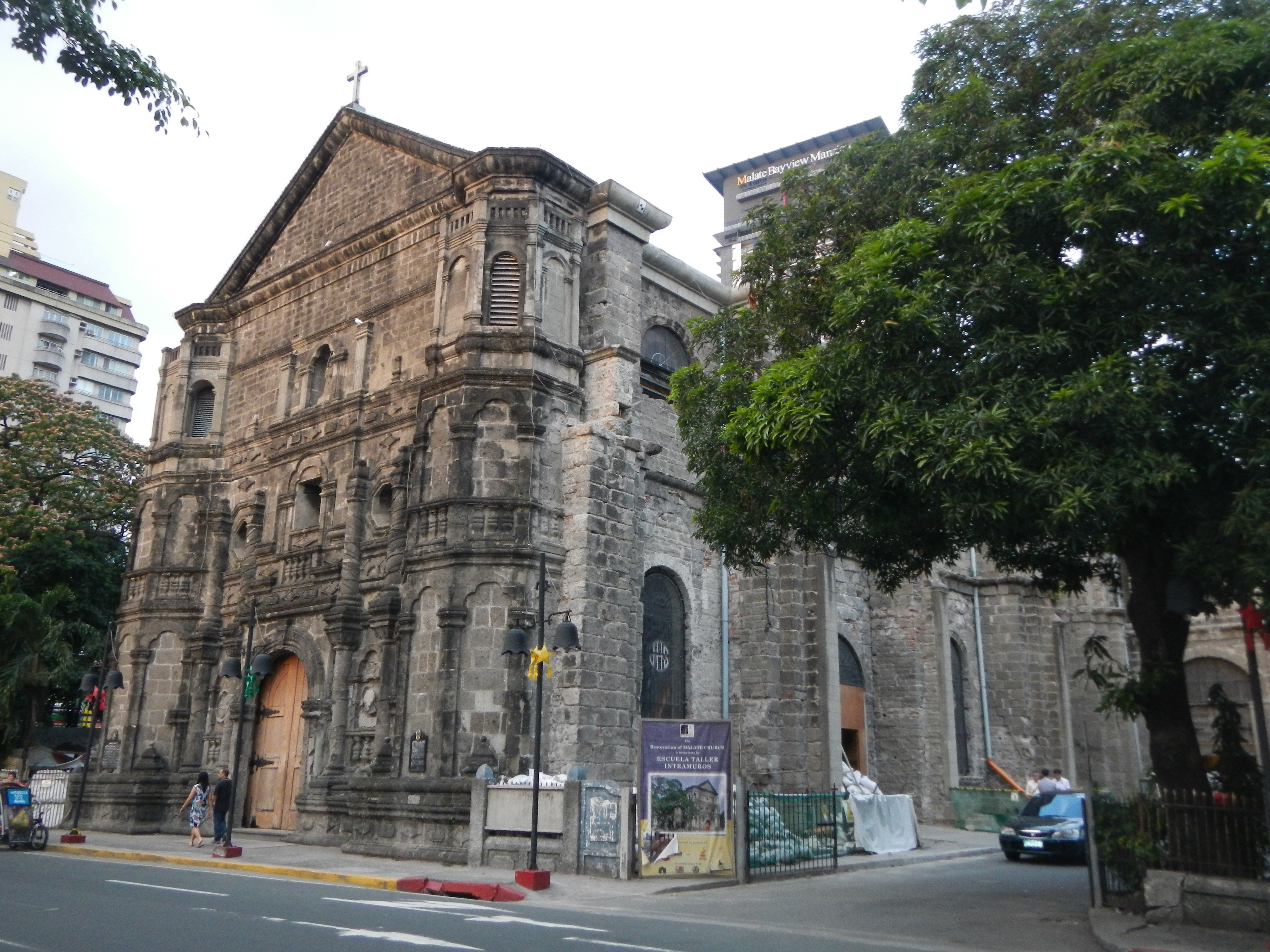 Malate Church[1] (Our Lady of Remedies Parish Church) is a church in Manila, Philippines and belongs to the Archdiocese of Manila[2]. It is a Baroque-style church, which faces the Rajah Sulaiman park and beyond Manila Bay. The church is dedicated to Nuestra Señora de Remedios ("Our Lady of Remedies"), the patroness of childbirth. A revered statue of the Virgin Mary in her role as Our Lady of Remedies was brought from Spain in 1624 and stands at the altar.[3][4][5]2000 MH del Pilar, Malate, 1004 Manila Coordinates: 14°34'9"N 120°59'4"E[6][7][8] Fr. John Leydon, MSSC, Irish Columbian, Parish Priest